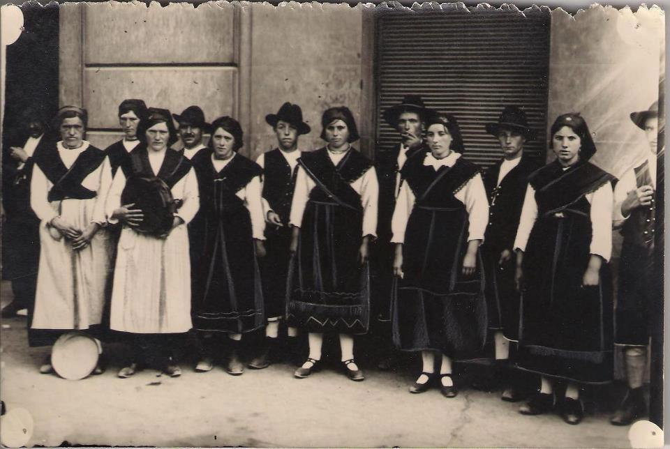 A group of Vaqueiros in traditional dress